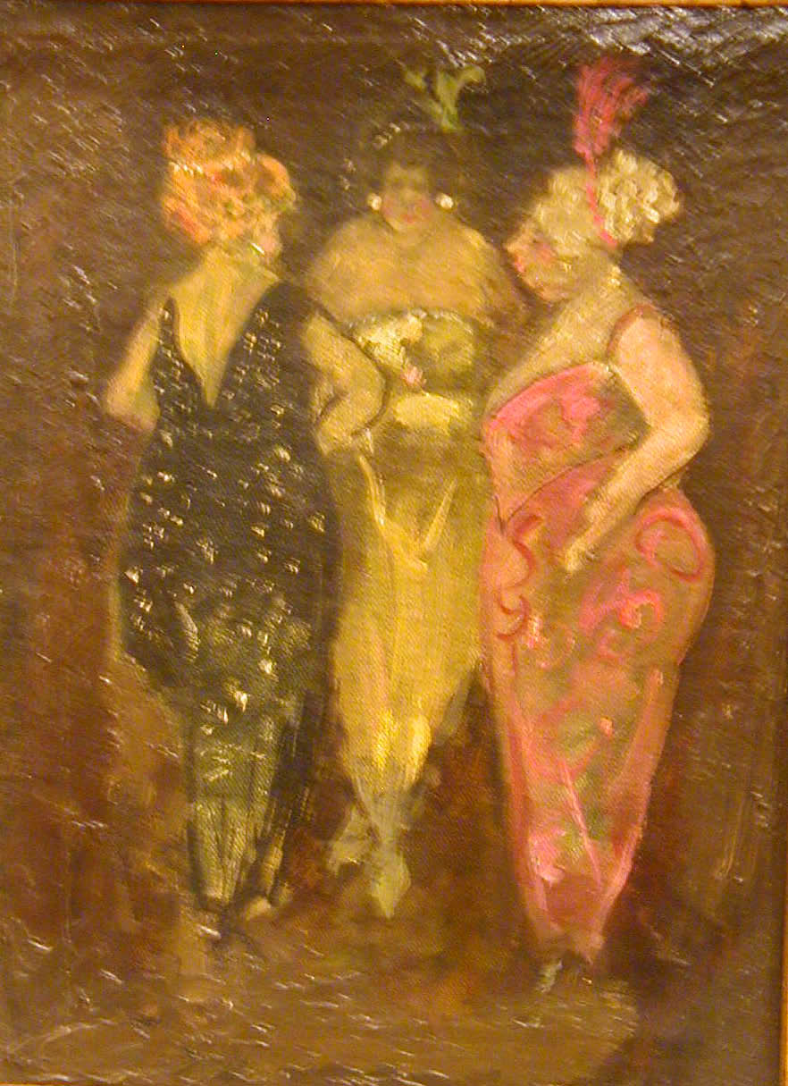 Three Women At A Party